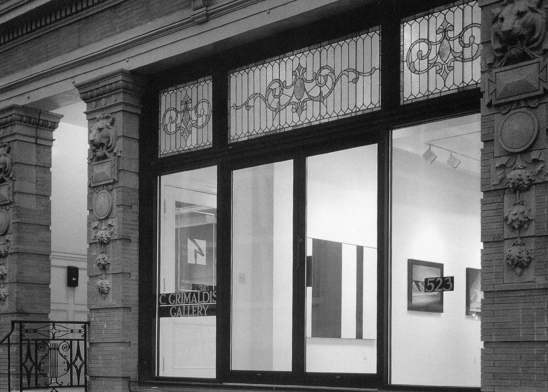 Outside C. Grimaldis Gallery, 1997